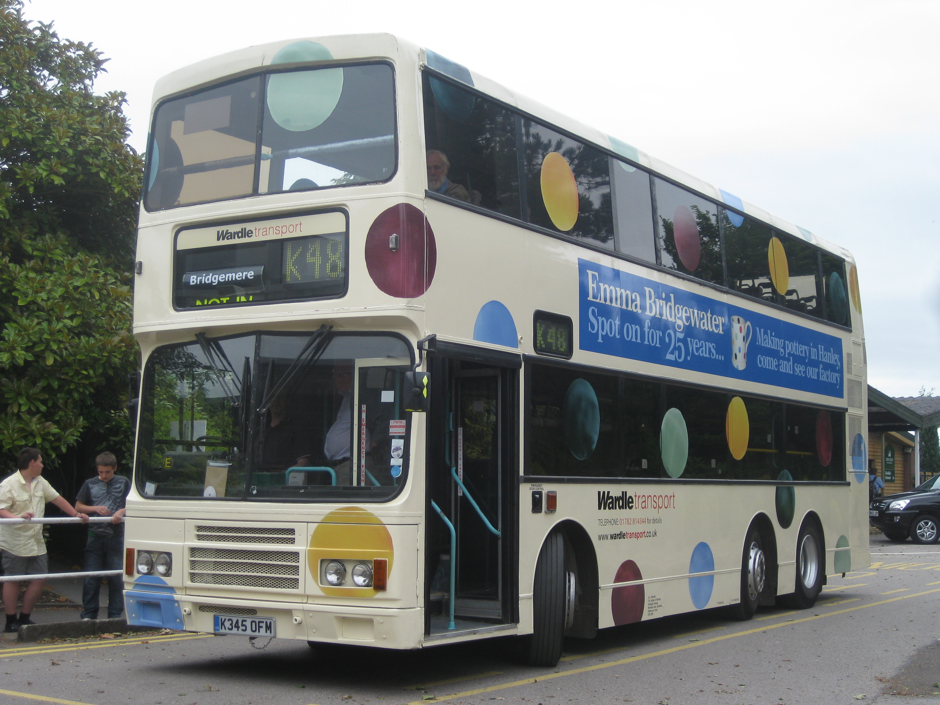 Wardle Transport, Stoke K345OFM was Citybus, Hong Kong 206 FS7207. It was repainted into this distinctive advertising livery for Emma Bridgewater pottery in 2010 and is seen working at the Crewe running day in July 2010. All three Wardle ex CTB Olympians were sold to Wheeler, Southampton in 2013.